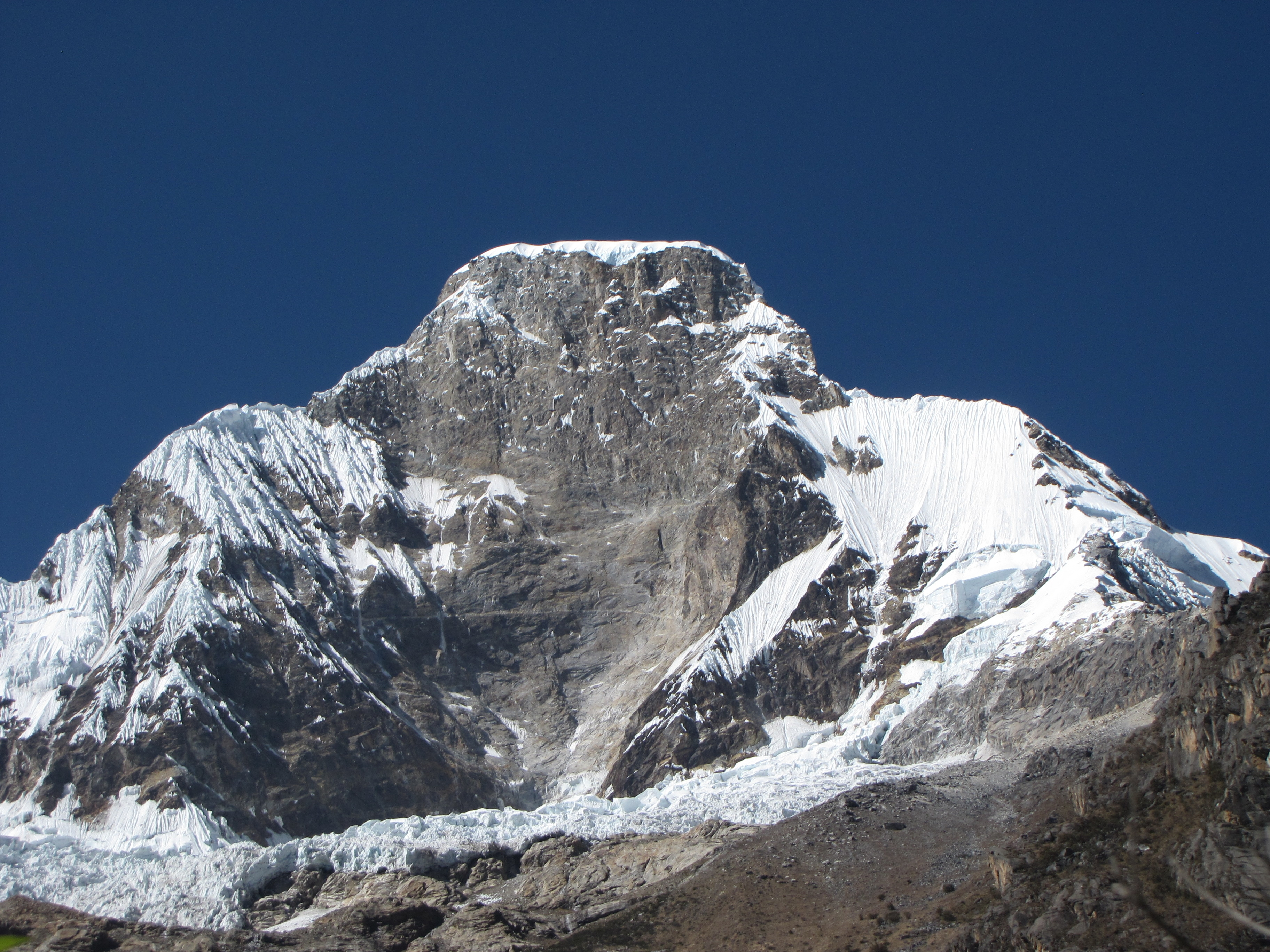 Huascaran North sheer rock wall